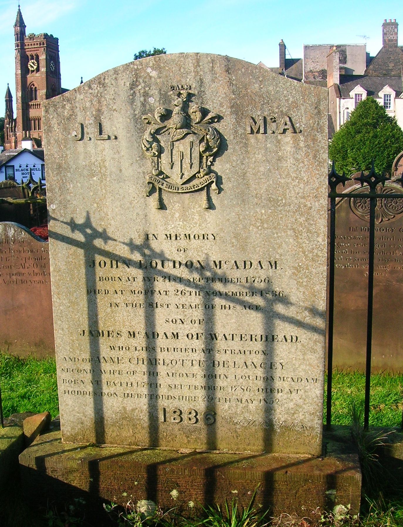 The grave of John Loudon McAdam, Moffat old cemetery, Dumfries and Galloway, Scotland.